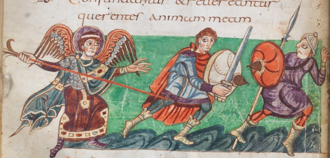 Miniature (fol. 42v), Psalm 34 (Vulgate Psalm 35), Judica domine nocentes me. (Two "enemies" driven away by "the Lord").